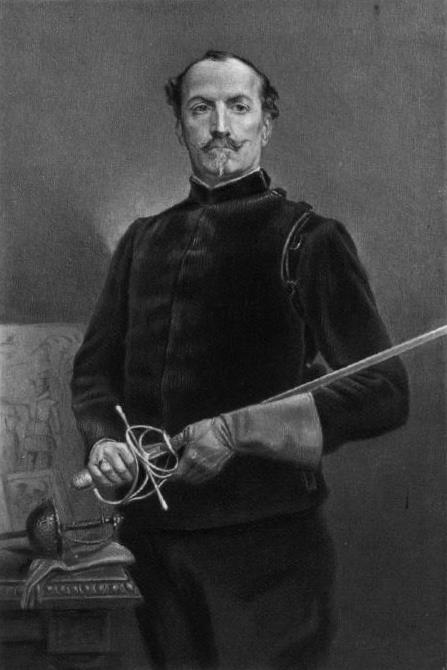 Engraving of a portrait of the British officer and fencer Alfred Hutton